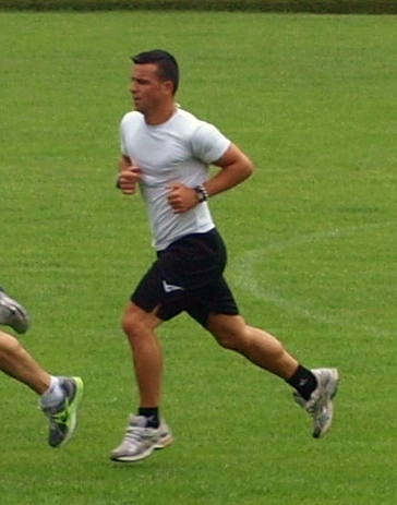 The football player Antonio Di Natale